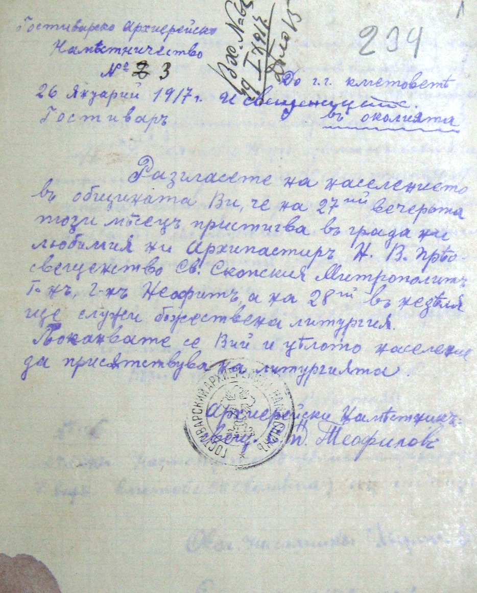 Announcement on the arrival of Skopje's metropolitan Neofit in Gostivar. January 26, 1917. This media file is produced by Wikipedian in Residence in Category:Wikipedian in Residence at DARM in 2016.